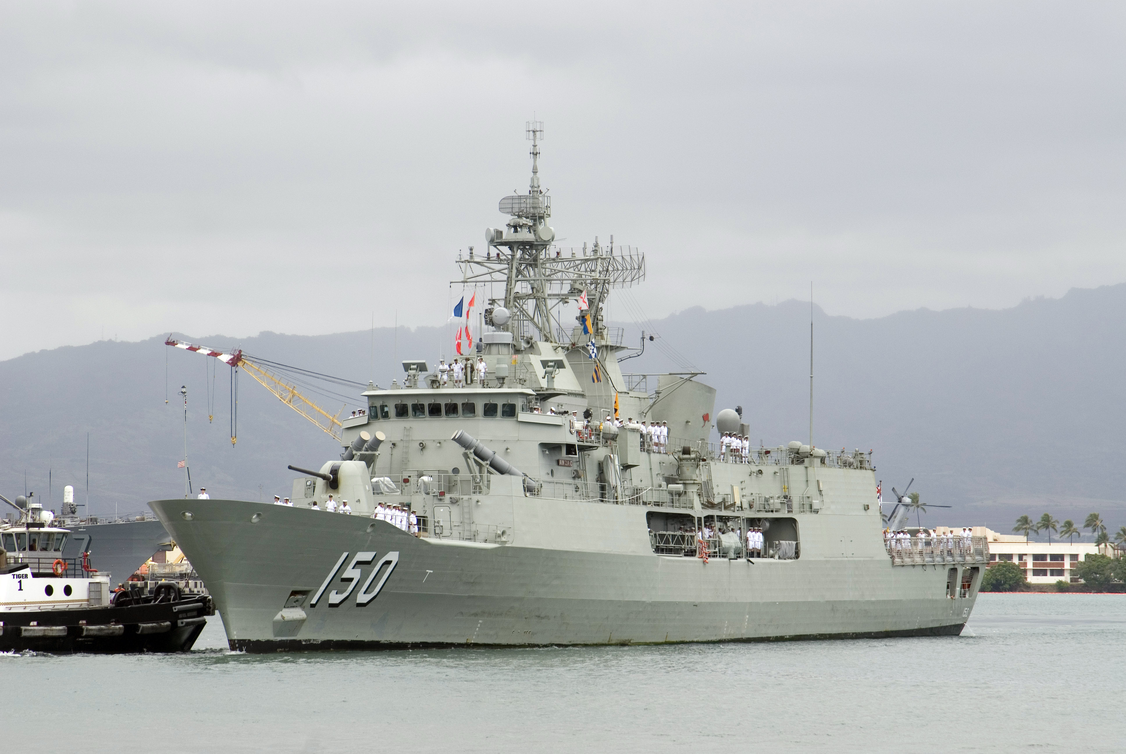 The Australian Navy ship HMAS Anzac (FF 150) arrives at Naval Station Pearl Harbor for this year's Rim of the Pacific (RIMPAC) 2008. RIMPAC is the world's largest multinational exercise and is scheduled biennially by the U.S. Pacific Fleet. Participants include the United States, Australia, Canada, Chile, Japan, the Netherlands, Peru, Republic of Korea, Singapore, and the United Kingdom.